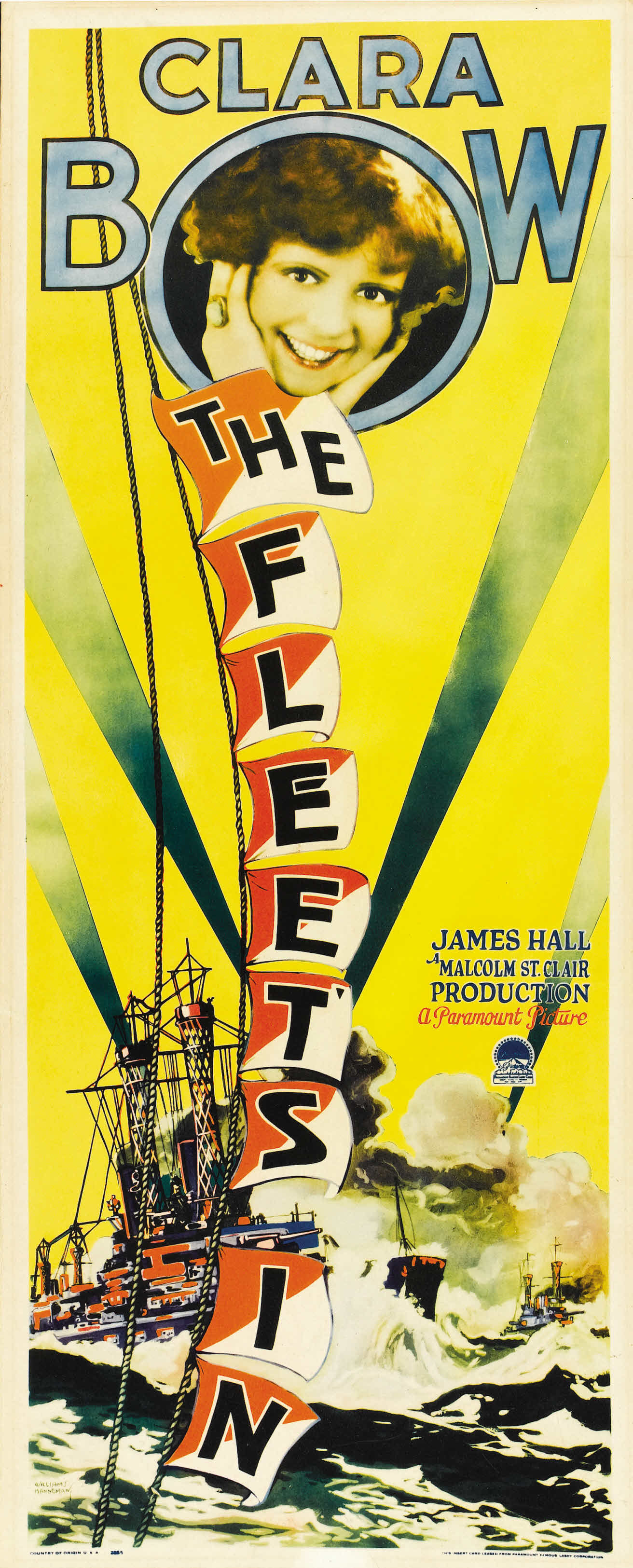 Poster for the 1928 Clara Bow vehicle The Fleet's In.